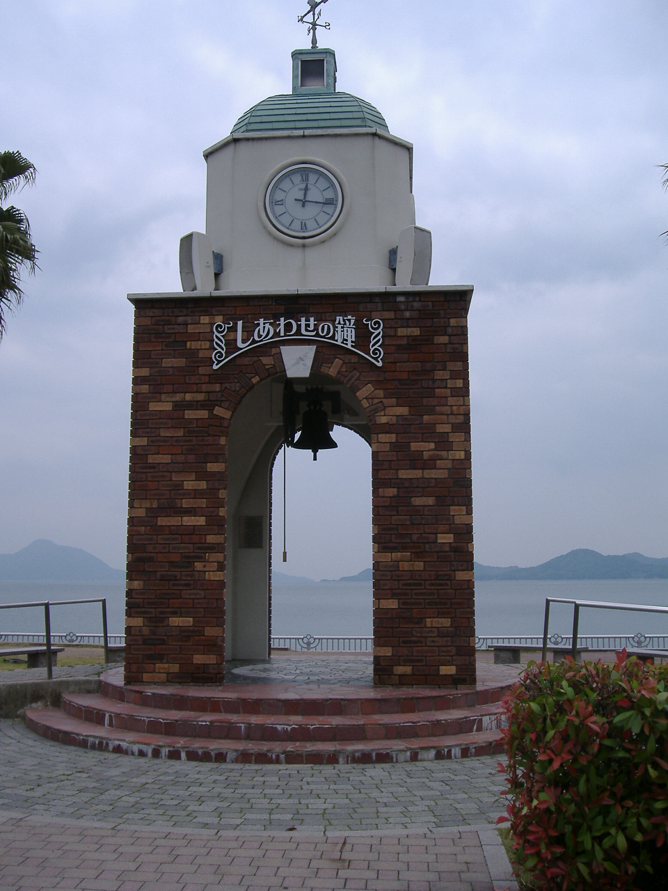 "Bell of Happiness" Michinoeki Tatara Shimanami Park in Imabari City, Ehime Prefecture, Japan